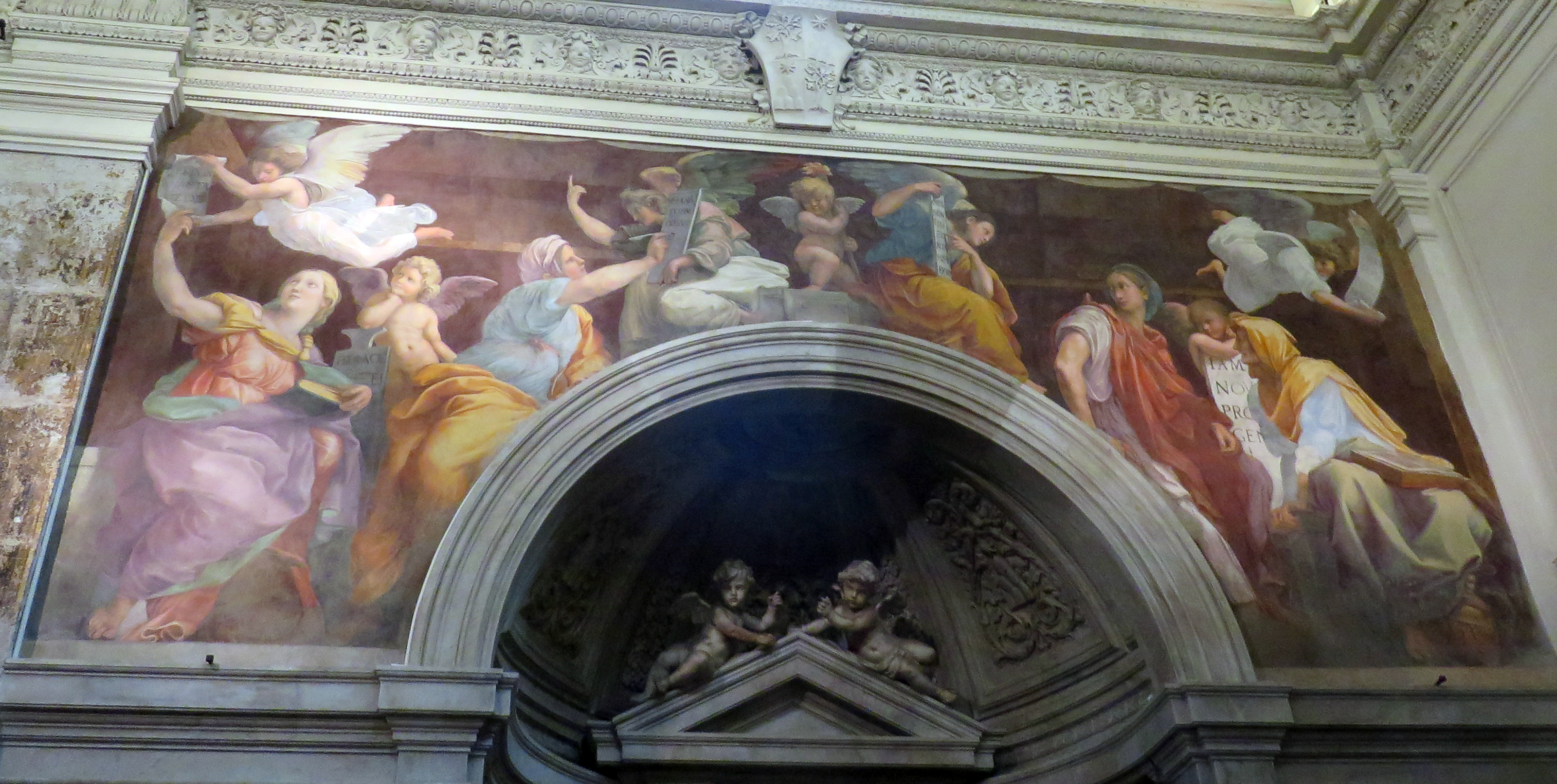 Santa Maria della Pace Chigi Chapel by Rafael